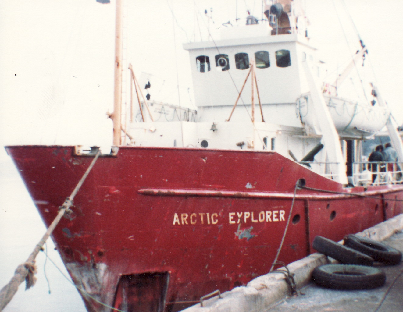 This photo was taken within the last six months prior to the sinking of the MS Arctic Explorer.